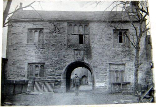 Gatehouseof Martholme built of sandstone rubble with central arch. Since renovated.